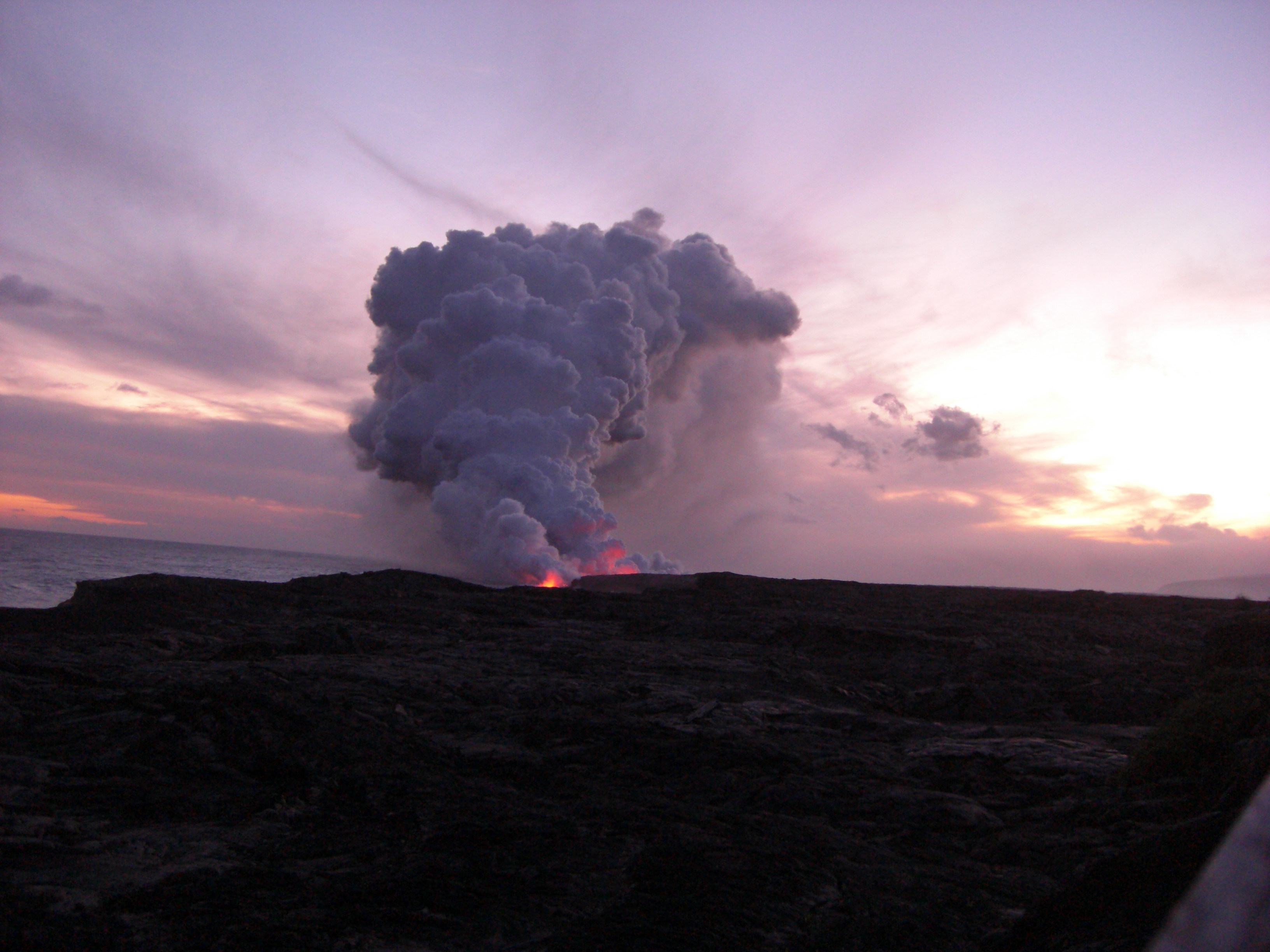 Kalapana volcanic area, Hawaii, USA